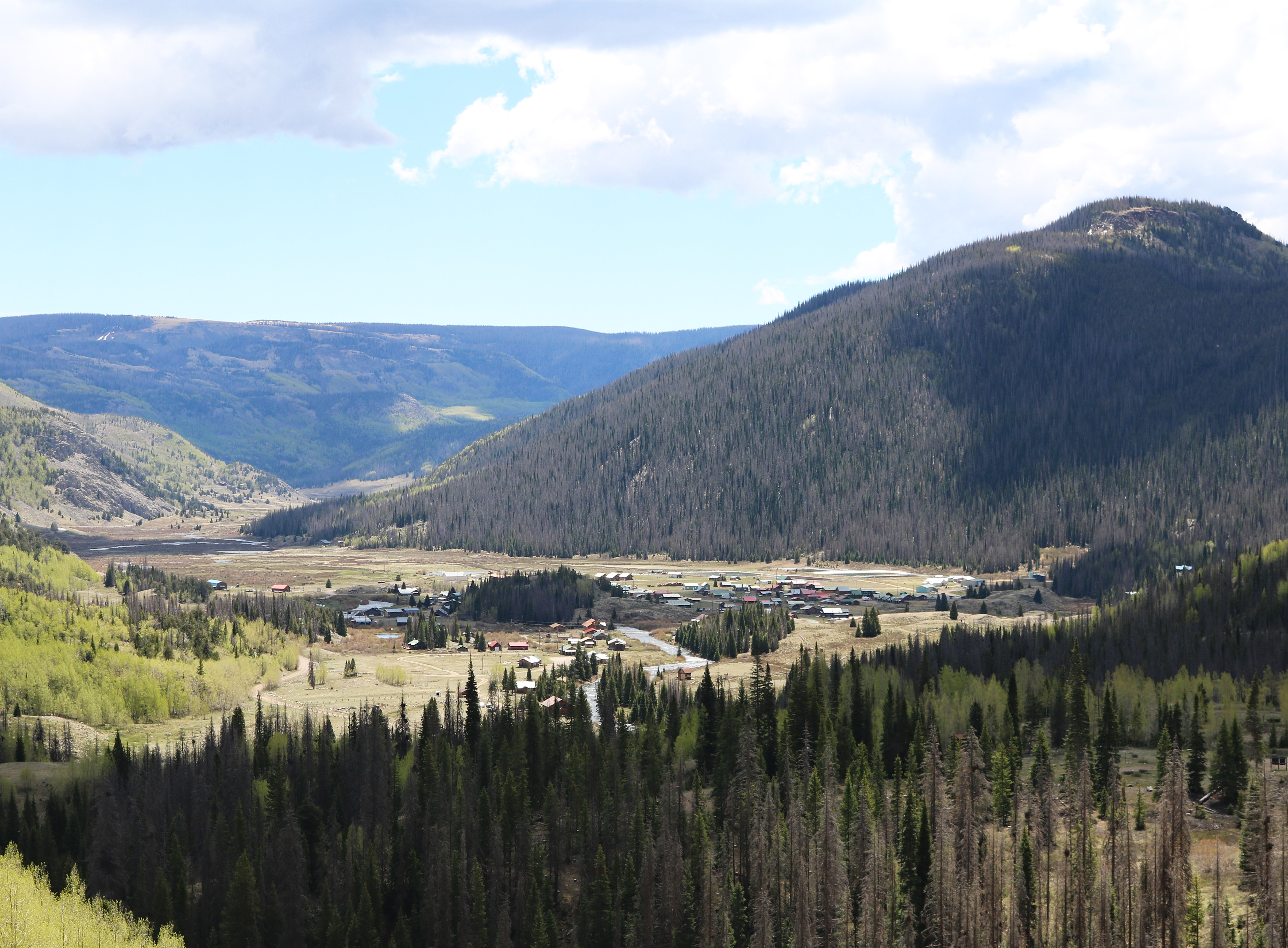 A view of Platoro, Colorado from a point above the community on Forest Road 250.